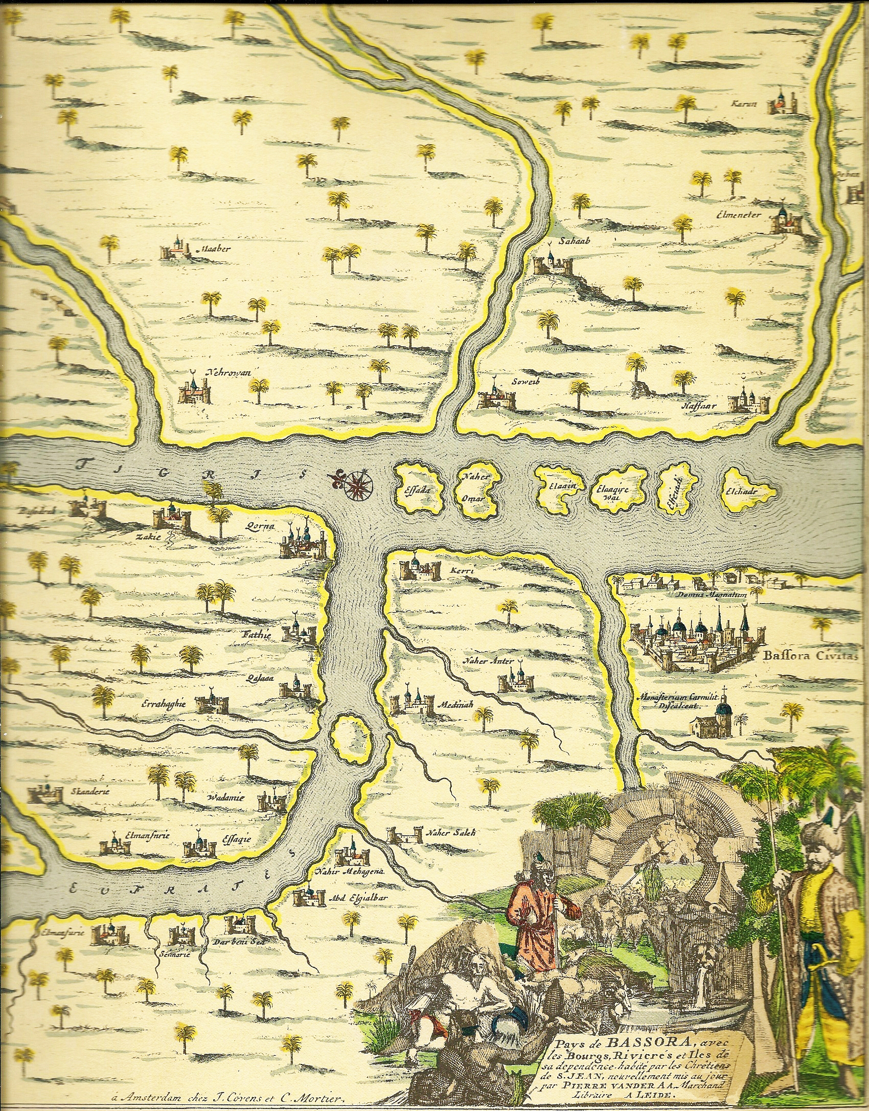 A Map of the Basra Region, 17th century: The Leyden publisher Pieter van der Aa (1659-1733) did not publish individual maps and atlases only but also edited several books, in which he included many maps and views. His largest map collection, the “Galérie agreeable due Monde”, which he concluded with 27 volumes in 1729, contained more than 3,000 copperplates, which were supplied by the best Dutch engravers. This map of southern Mesopotamia has been taken from that publication. Basra, principal town of the same province, was for a long time an important staple of Arabian sea-borne trade, whose connections reached to China. Early in the 17th century a powerful local landed proprietor (Afrasiyab) managed to temporarily shake off Turkish rule, which had been existing since 1534, an appointed himself the sovereign of the region at Shatt el-Arab. He entered into relations with the Portuguese, whereupon these set up a trading post and were even allowed to build a church a church in the town. In this title cartouche the artist depicted some characteristic features of the country. The river-gods allegorize the large rivers Euphrat and Tigris. The herdsmen with their stock and the date-palms hint at the most important commodities, while the Moslem warriors demonstrate the independence of the principality.